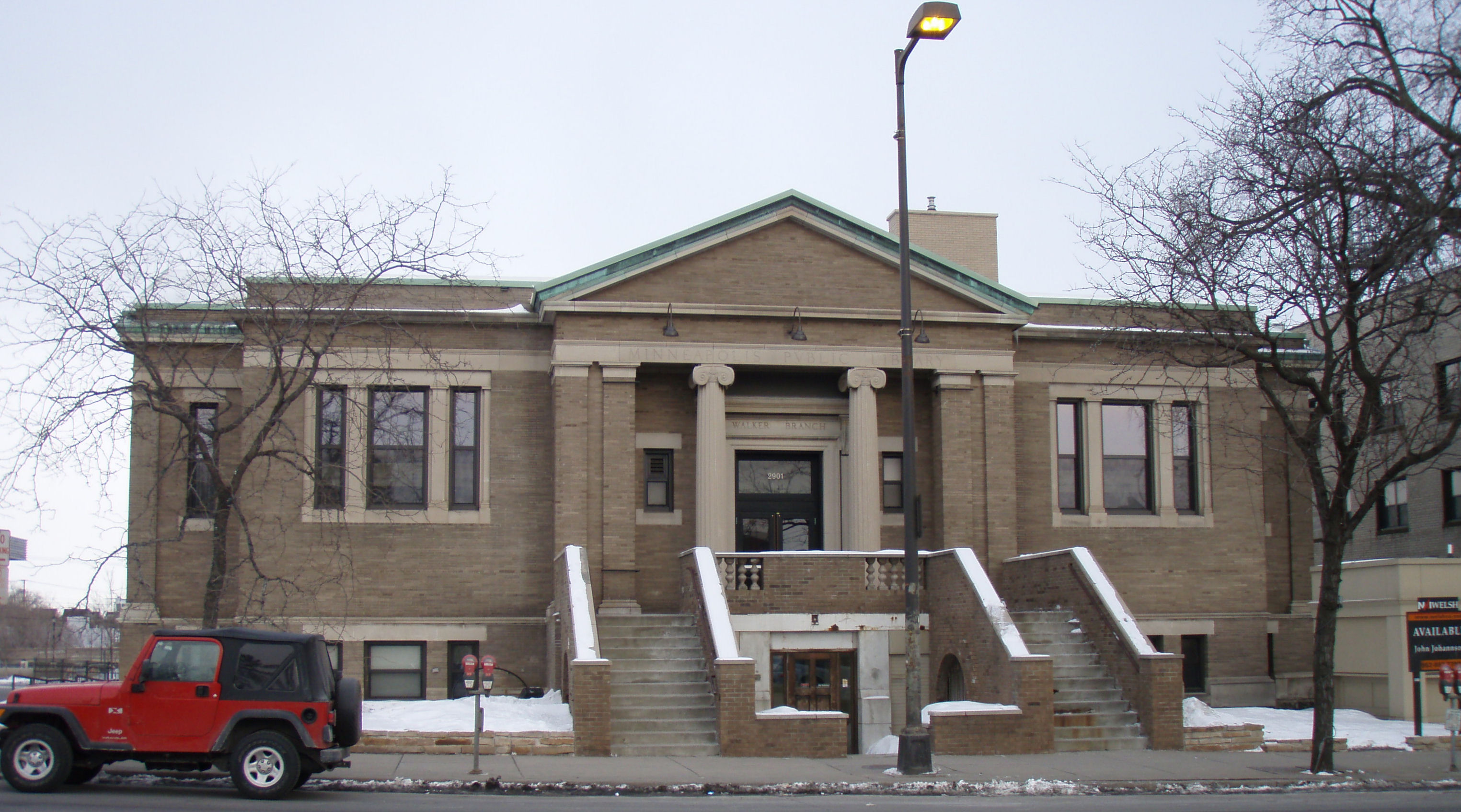 Walker Branch Library in Minneapolis, Minnesota.